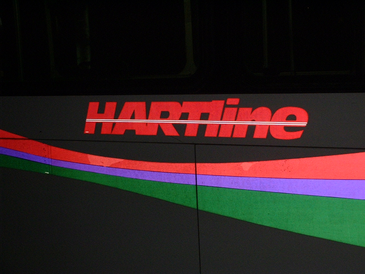 Hillsborough Area Rapid Transit logo